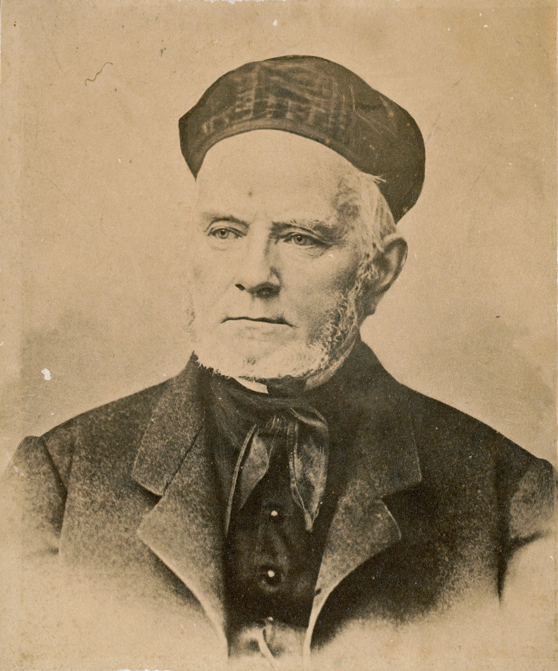 Printed portrait on cardboard of Dr Lowell Mason by Boston: Oliver Ditson & 277 Washington Street.